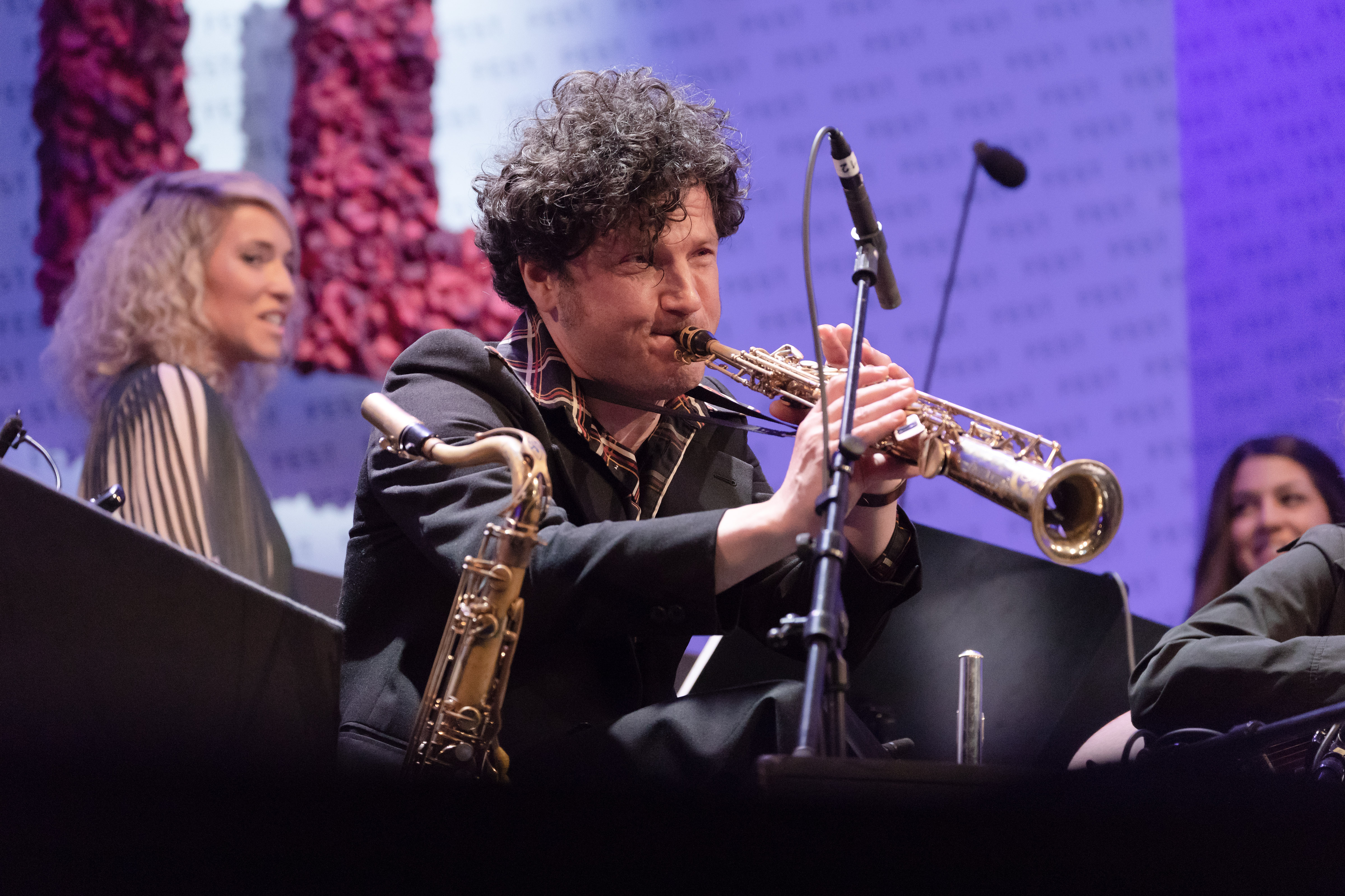 Andrej Prozorov at the opening evening of the Vienna Festival 2018 (Rathausplatz, Vienna, Austria).